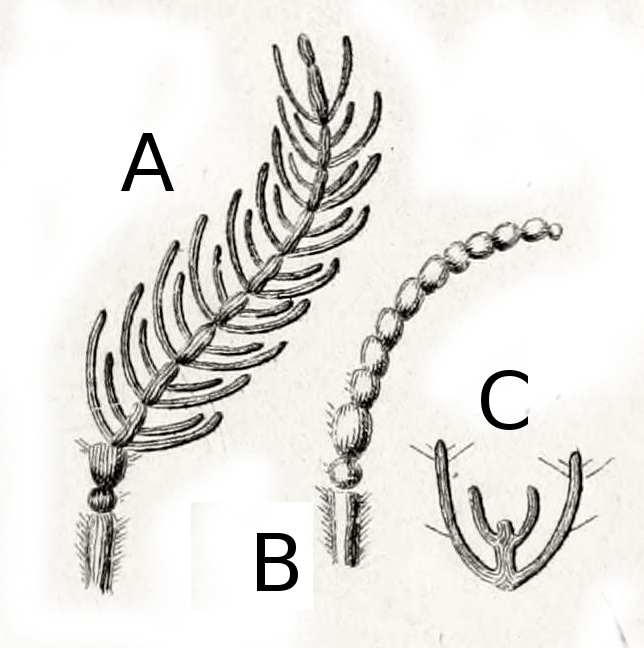 Ctenopphora, antenna A:Male type C B:female C:one segment of male antenna with four appendices